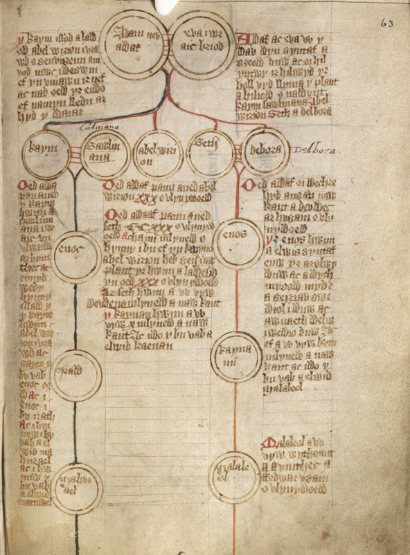 This part of the manuscript is an incomplete genealogical text. It begins by listing the biblical lineages. The second part follows the history of the descendents of Brutus and the final part lists the kings of Britain following Geoffrey of Monmouth's work.